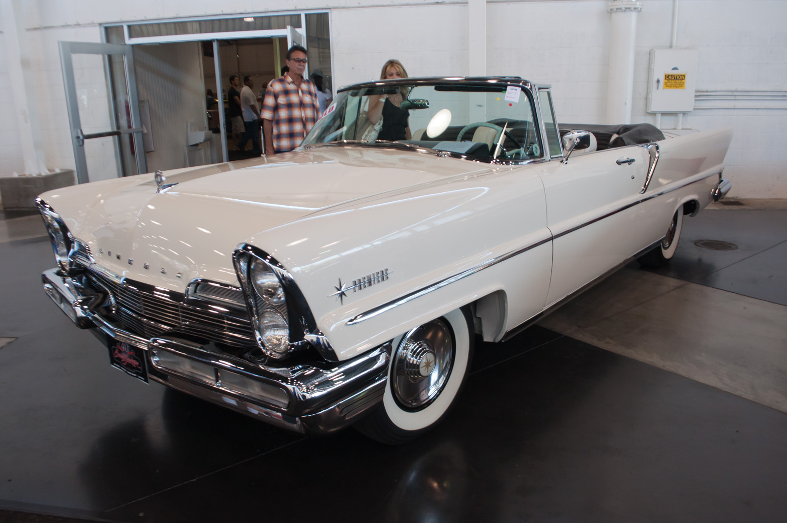 Offered for sale at Barrett-Jackson Auto Auction, Costa Mesa, California. This is an extremely nice car - it has a 300-hp 368 CID V8 engine, a Turbo-Matic automatic transmission that was exclusive to Lincoln, and distinctive cantilevered tail fins. Only 3,676 were built for the year 1957. The proceeds from the sale of this car are to go to Loma Linda University Children's Hospital.